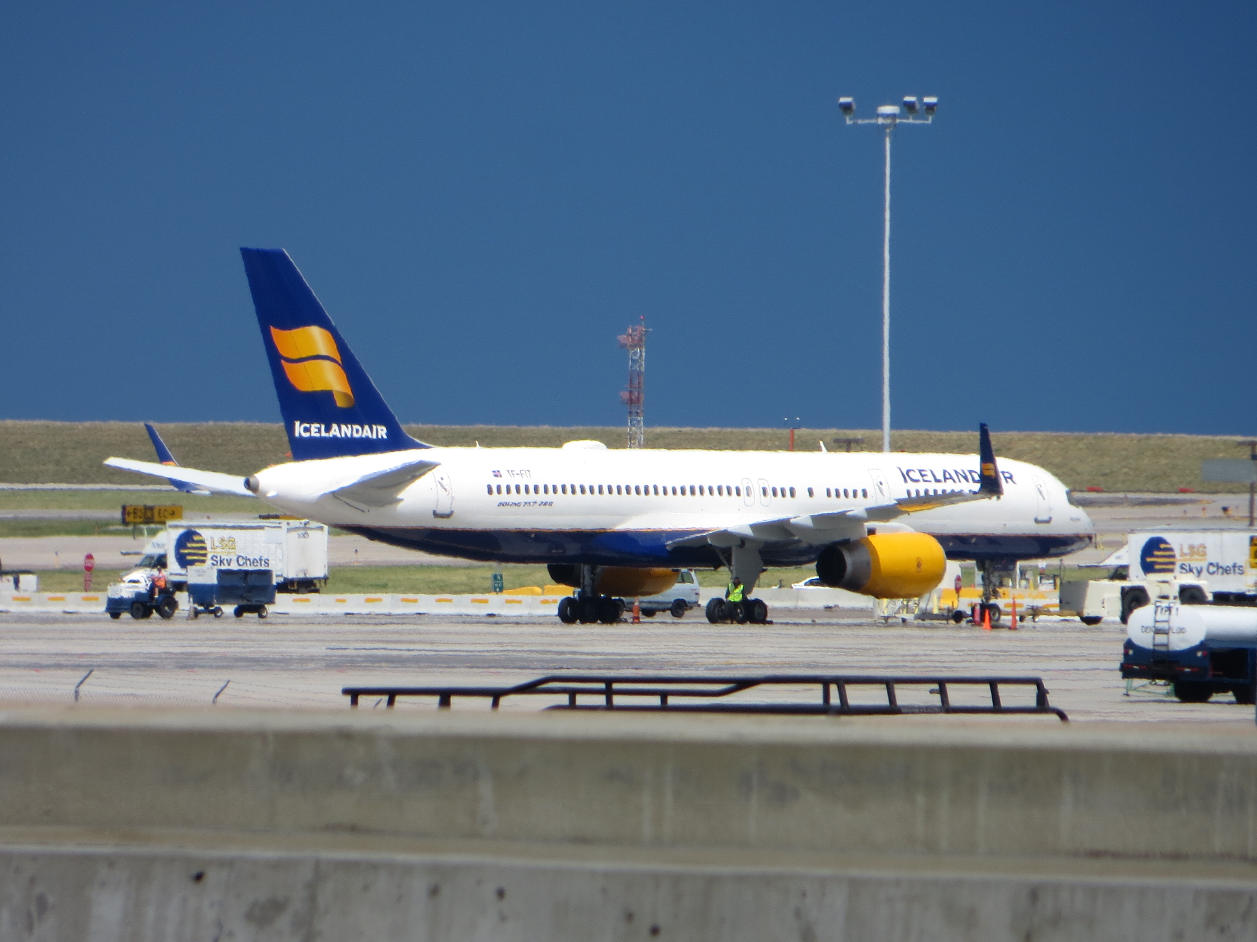 An Icelandair 757 at Denver Int’l Airport.